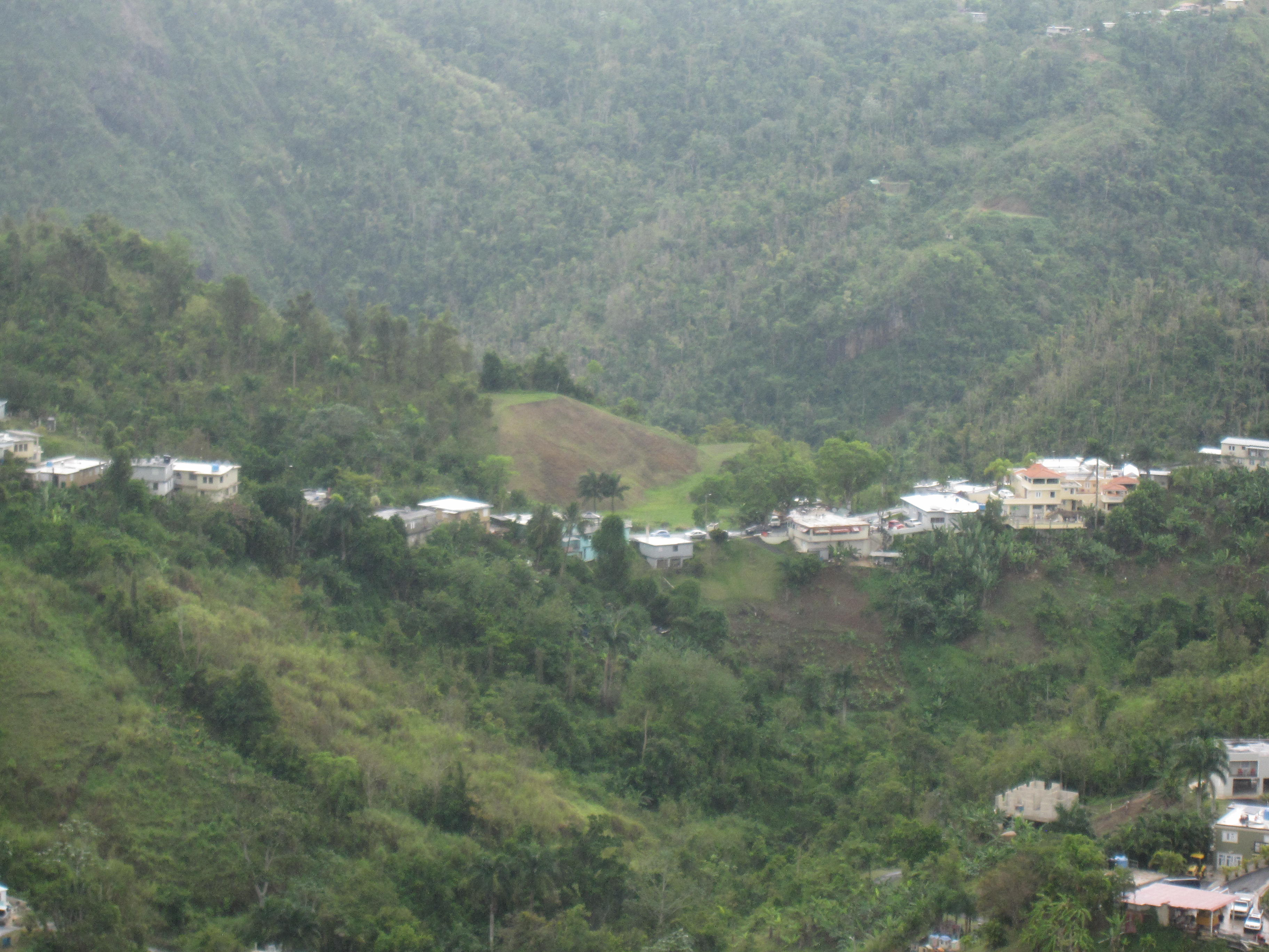 View of Barrio Gato, Orocovis, Puerto Rico from lookout in Orocovis